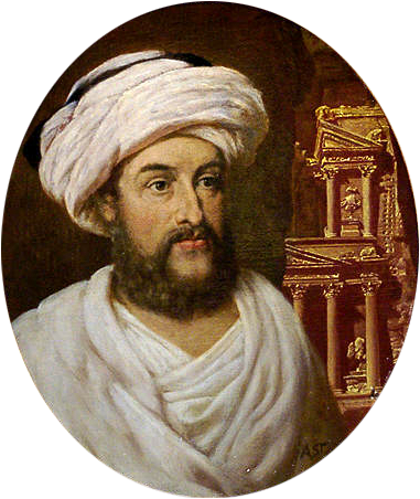 Johann Ludwig Burckhardt, Swiss traveler and orientalist